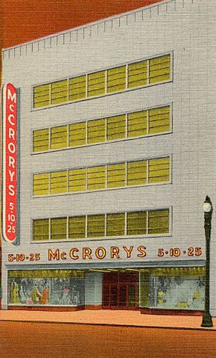 McCrory's Five and Dime — Syracuse, New York.